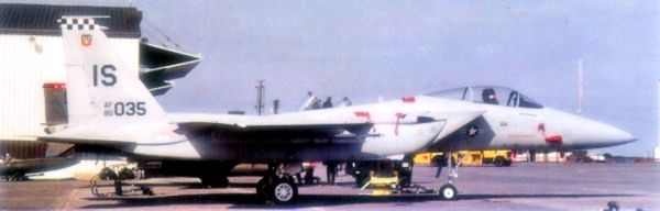 A U.S. Air Force McDonnell Douglas F-15C-28-MC Eagle (s/n 80-0035) of the 57th Fighter Interceptor Squadron at Keflavik air base, Iceland.